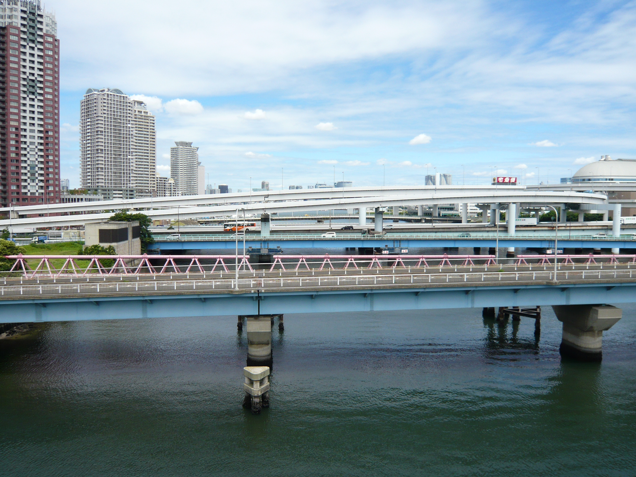 Canal of West Ariake(Ariake-Nishi-Unga、有明西運河) in Koto-ku,Tokyo,Japan.